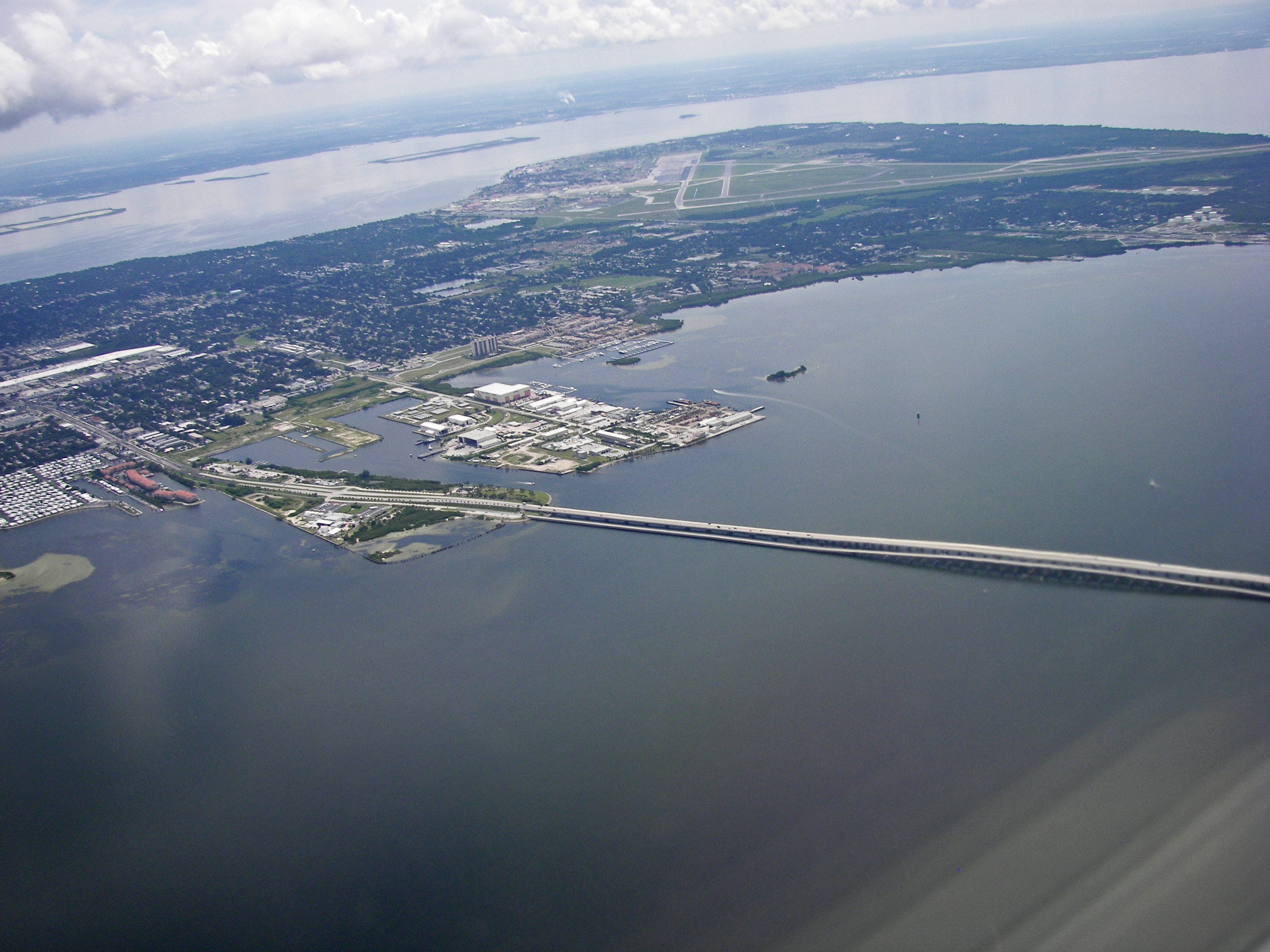 Aerial view of South Tampa, Florida including MacDill Air Force Base and the Gandy bridge.